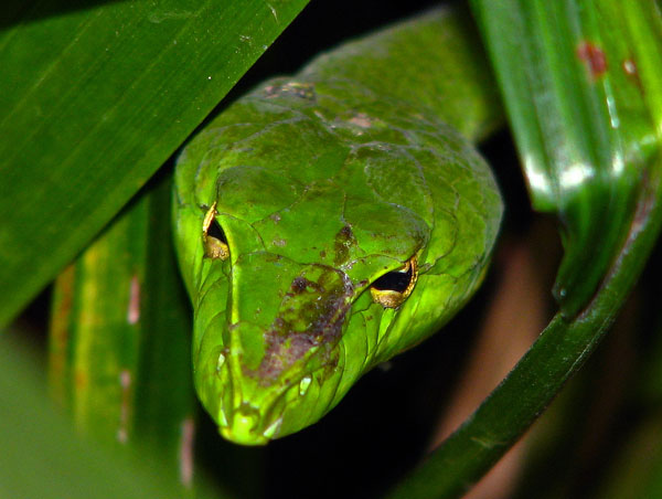 Ahaetulla nasuta This one was surprisingly immence..too loong and too bulky compared to any vine snakes i've seen till then. And when i tried handling it by its tail, it gave me this look( was real lucky to get a snap at the right moment) then just had to leave it go ..its grip on this red palm was unbelievable!!!